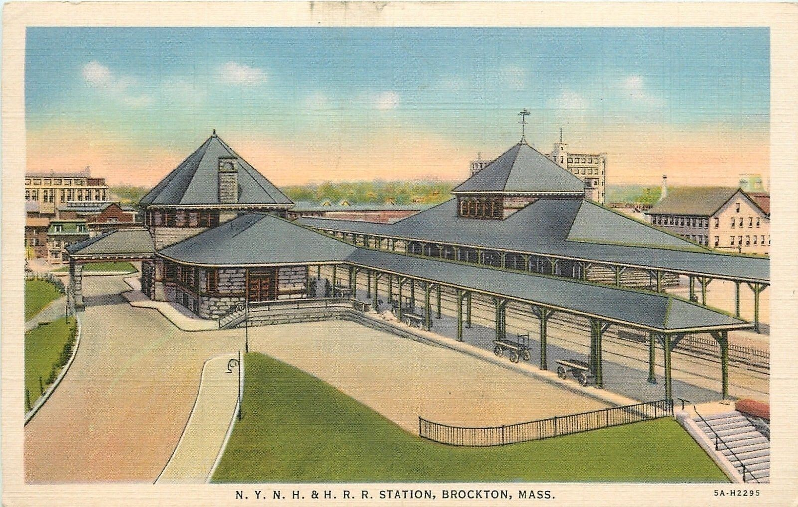 Early white border postcard of Brockton station